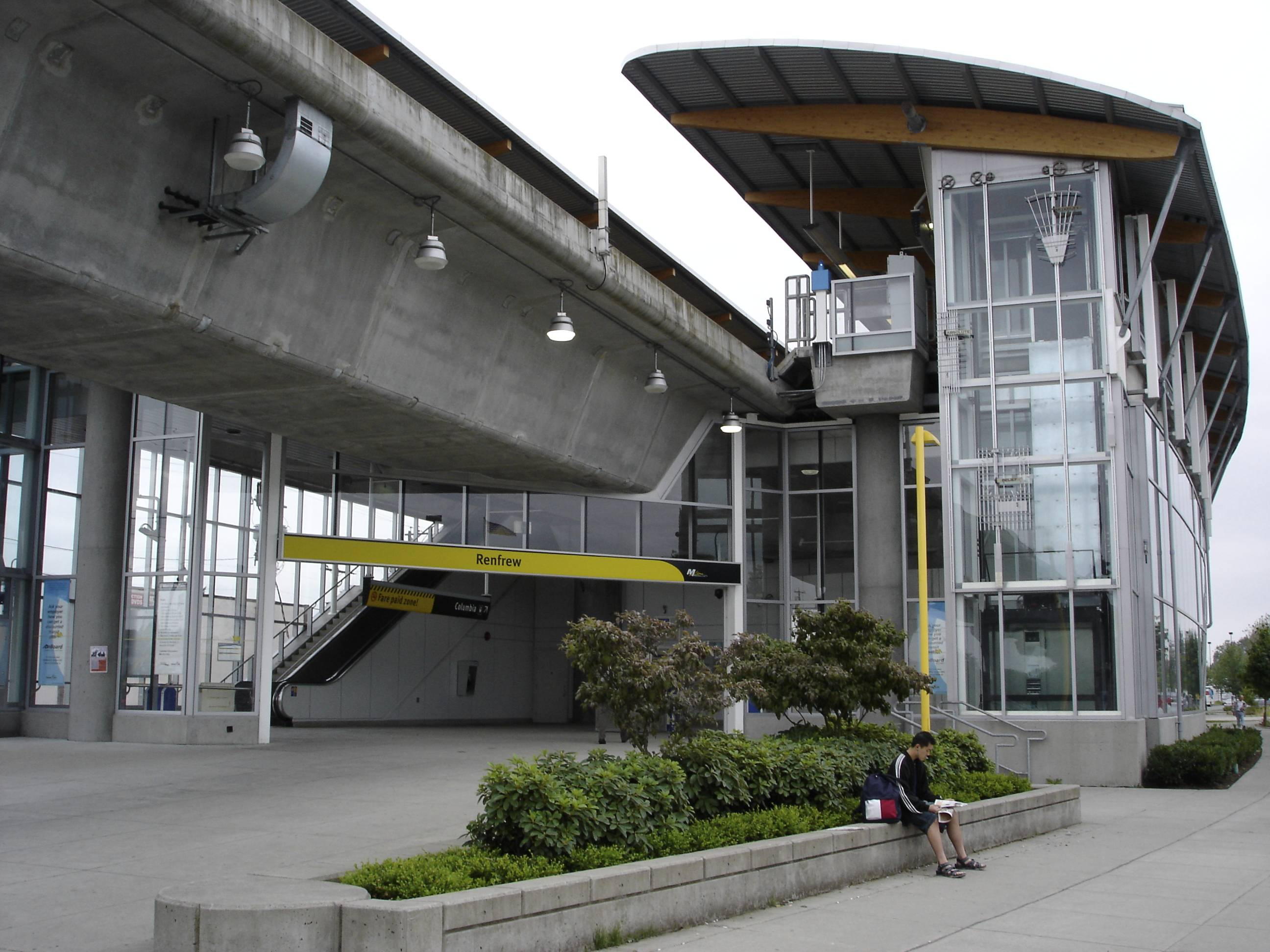 Renfrew SkyTrain Station, Vancouver, BC, Canada